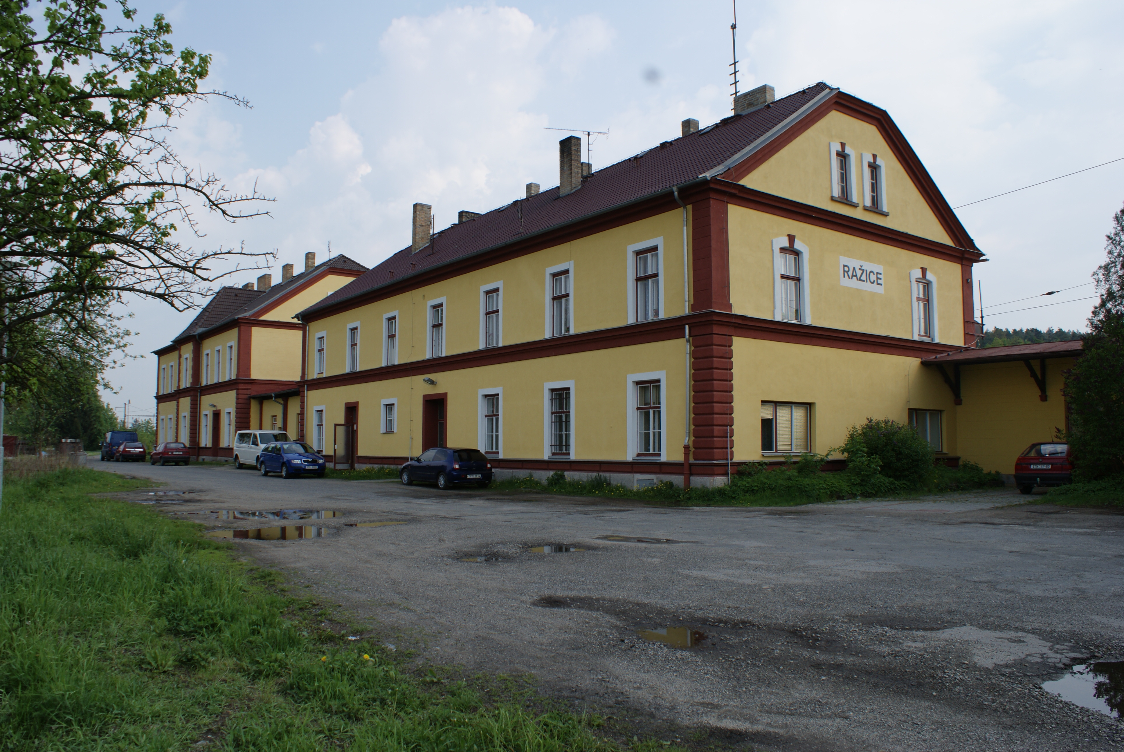 Ražice village in Písek district, Czech Republic. A northwest view of the train station.